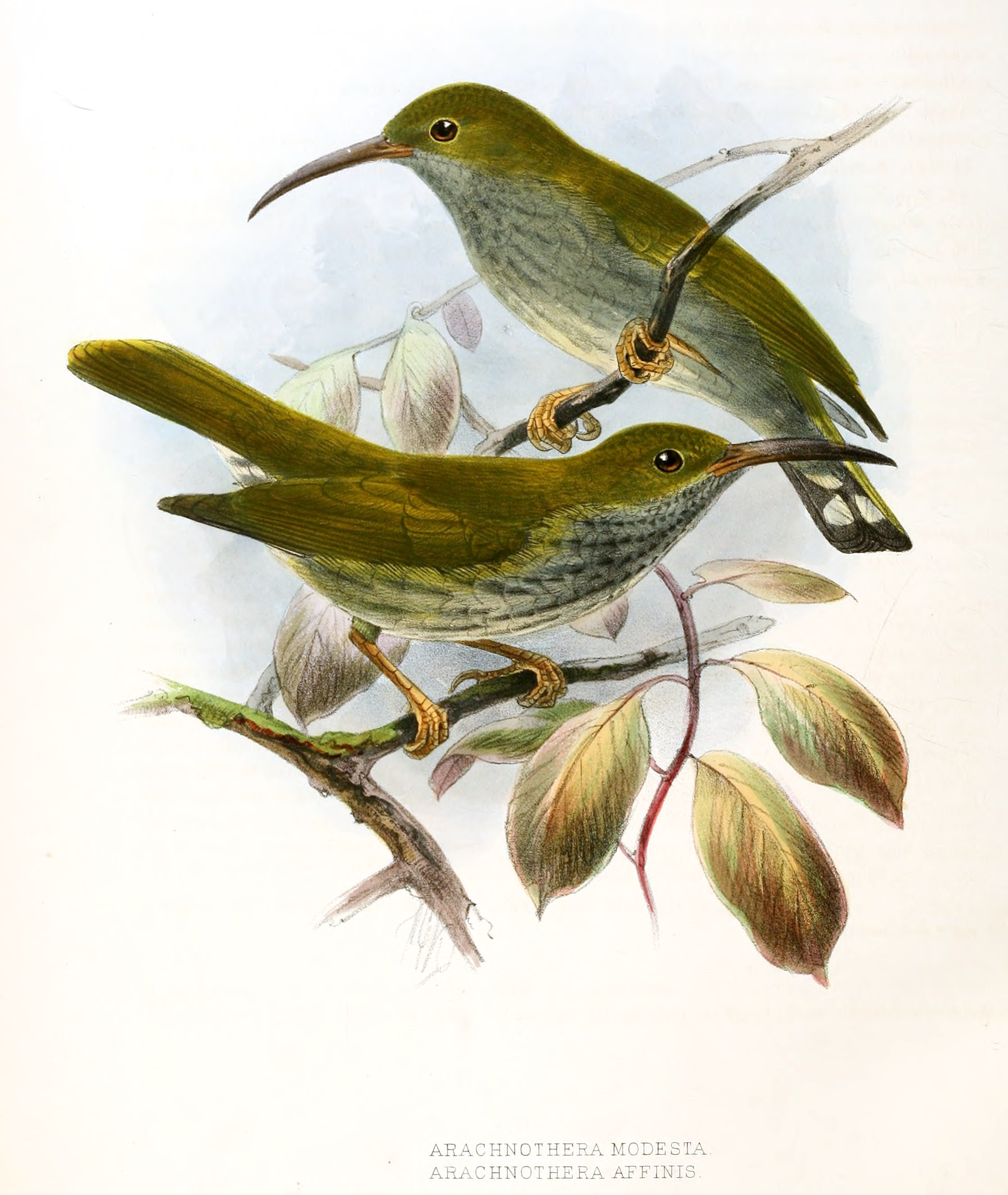 Arachnothera modesta, A. m. affinis